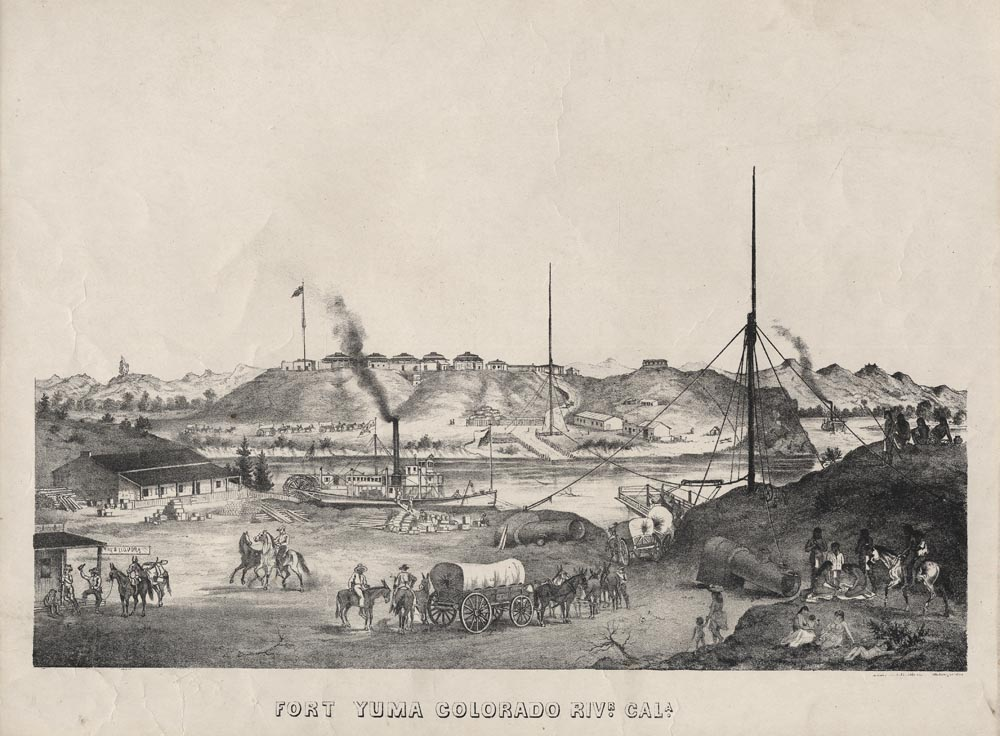 Fort Yuma (on hill), steamboats on the Colorado River, and structures at Yuma Crossing — in the Lower Colorado River Valley of the Southwestern U.S. Fort above the historic river crossing and port — linking the southeastern Californian Colorado Desert and points west with Yuma, Arizona and points east, and the region with foreign goods shipped upriver from Mexico. Lithograph of the river port settlement and fort — circa 1875. Fort Yuma is: one of the contributing properties within the Yuma Crossing Historic District, in Imperial County, California and Yuma, Arizona; a listed California Historical Landmark and National Historic Landmark; and on the National Register of Historic Places in Imperial County, California. Located within the present day Quechan Reservation.